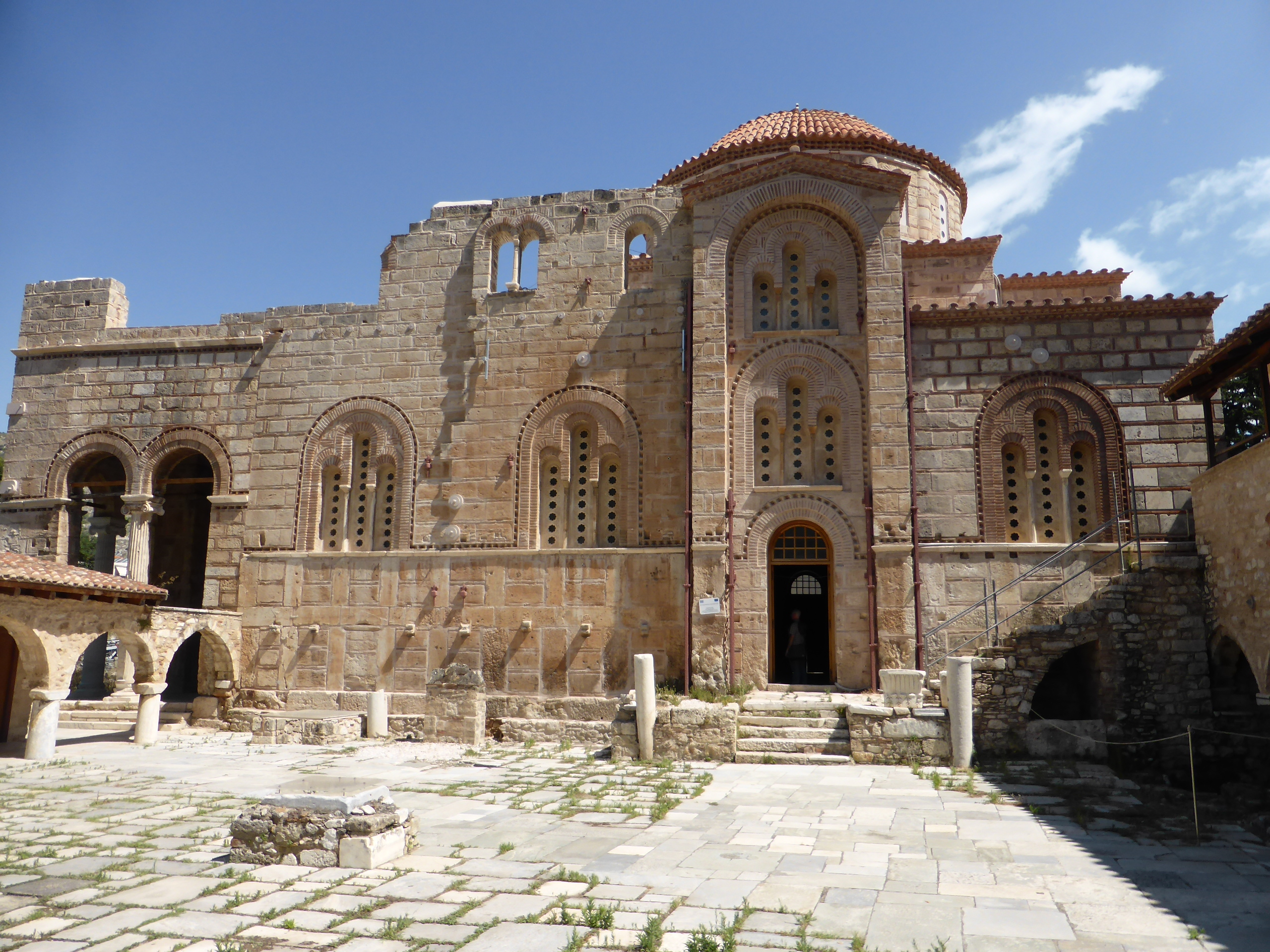 Monastery of Daphni, after restauration